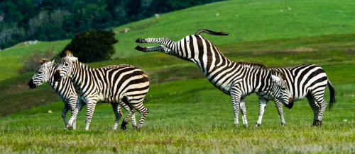 This Zebra was not a happy camper. It would not be good to be at the business end of this kick.